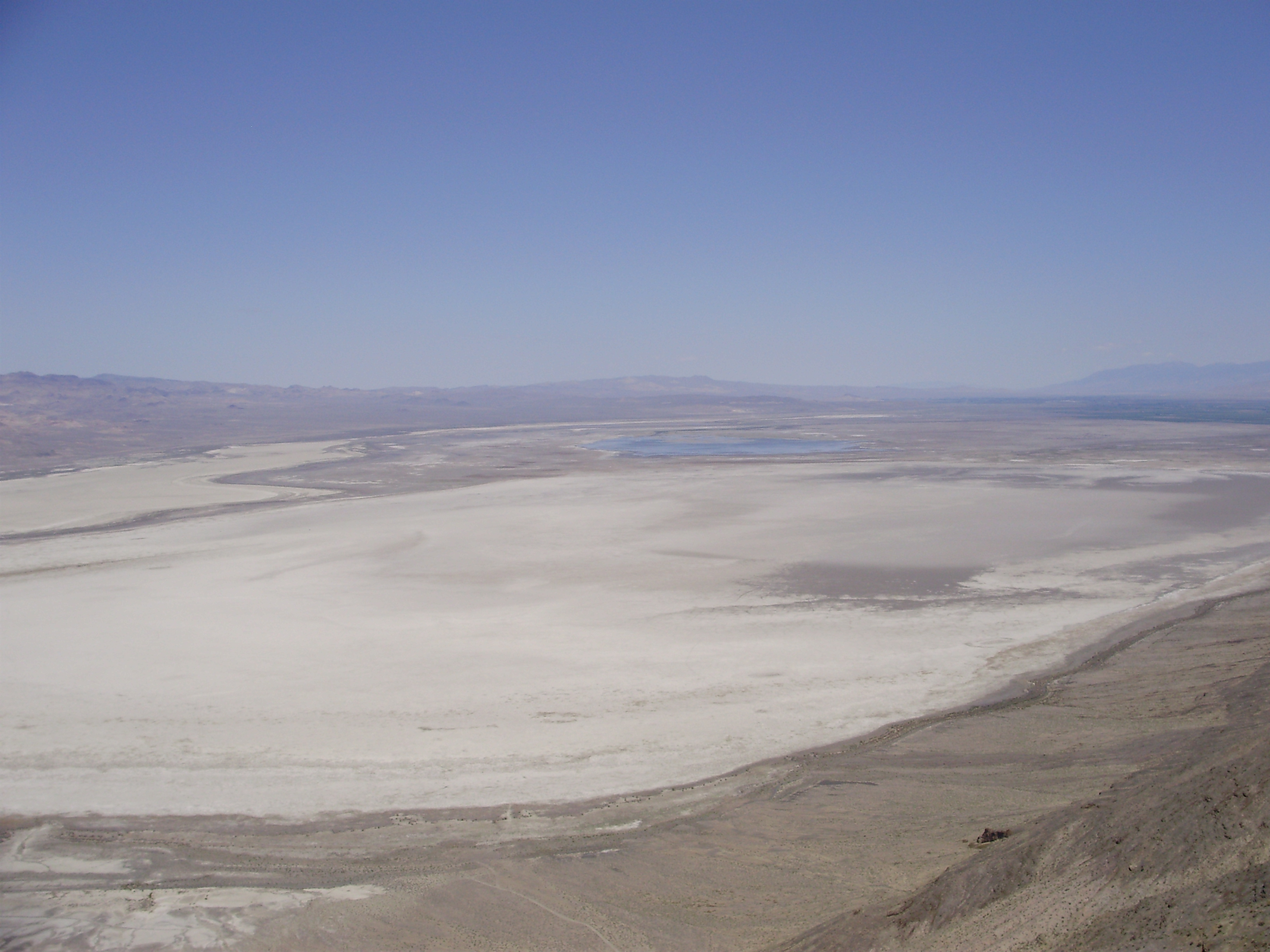 View of Humboldt Sink and Lake from Topog Peak, Nevada